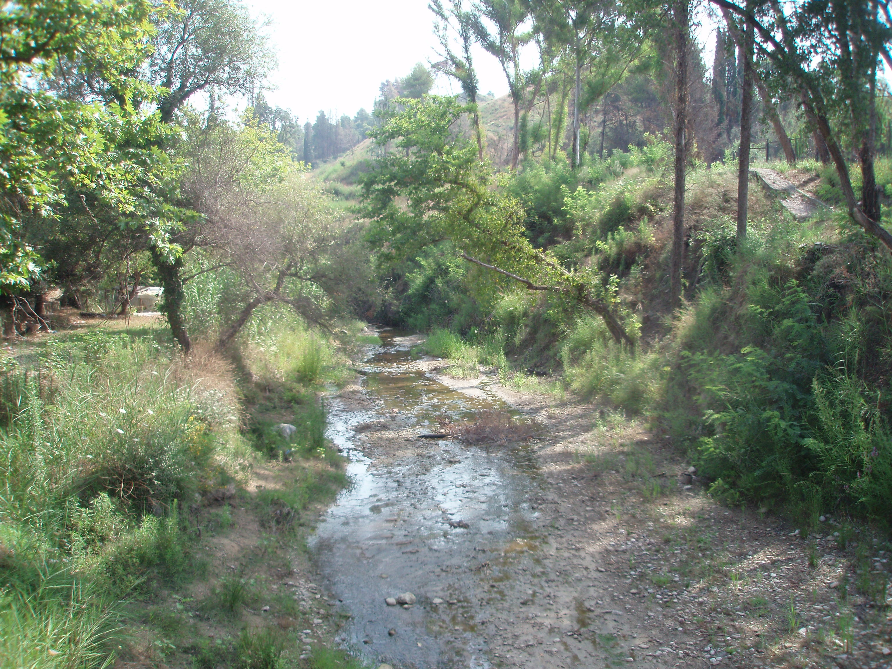 Kladeos River at Ancient Olympia (Archea Olympia), Peloponnese, Greece. Photo was taken from pedestrian bridge crossing the river towards the new Olympia museum.